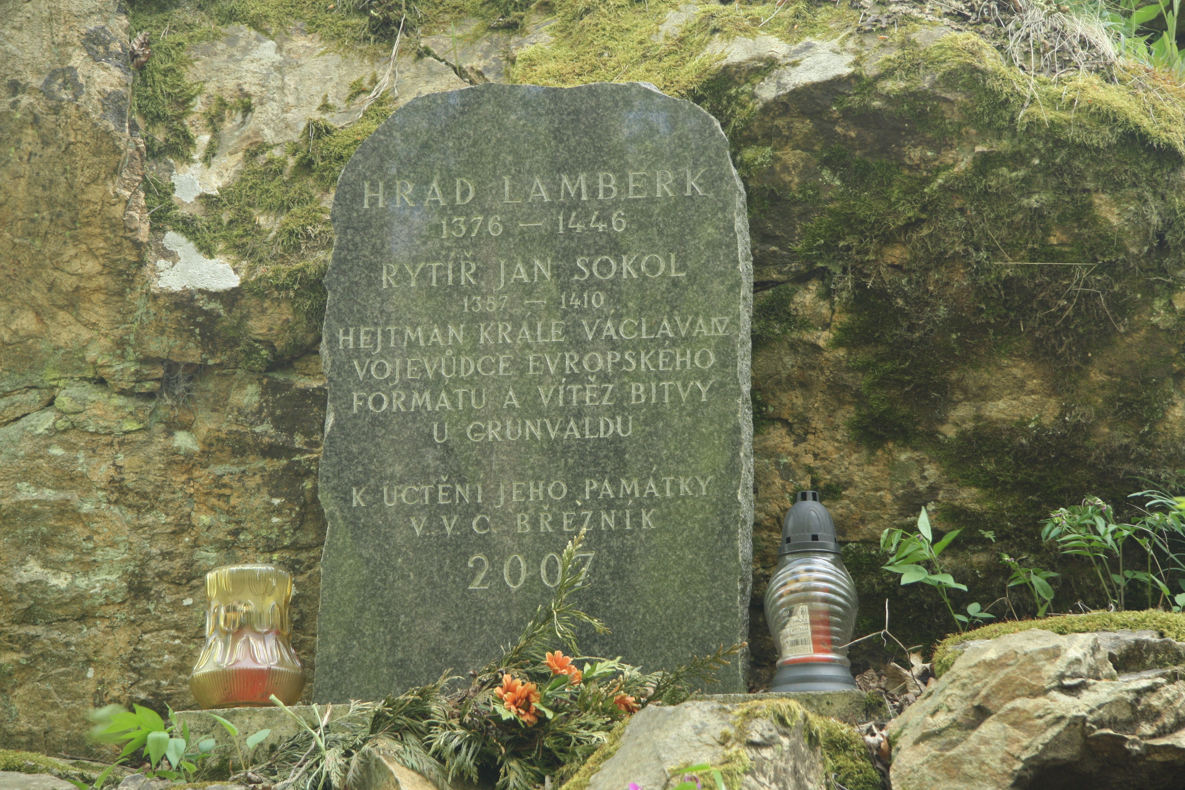 Memorial stone of knight Jan Sokol from Lamberk at Lamberk castle near Březník, Třebíč District.